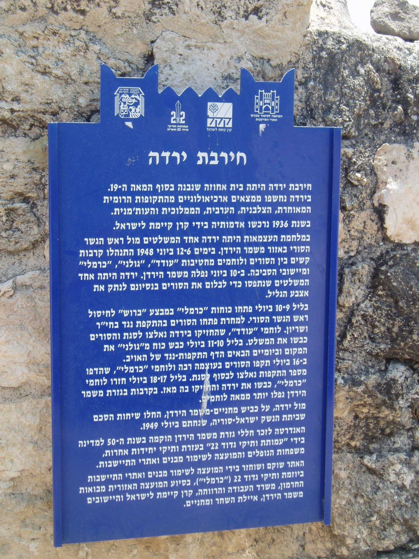 Yarda sign - with some explanation on this place